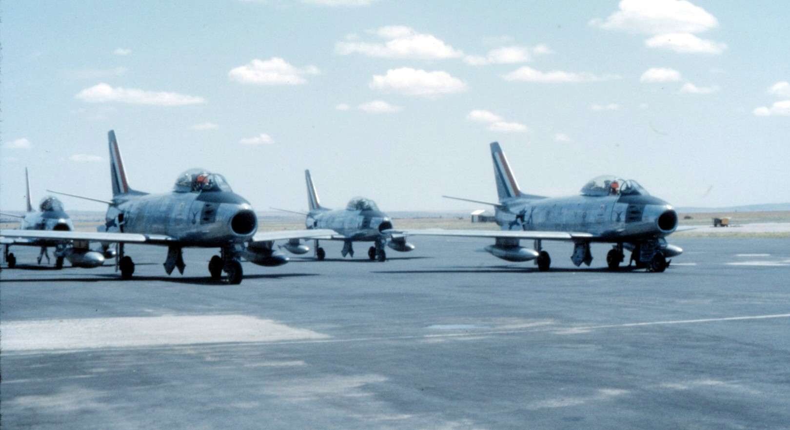 1 Squadron Sabre no 352 B and others on the flightline at AFB Pietersburg